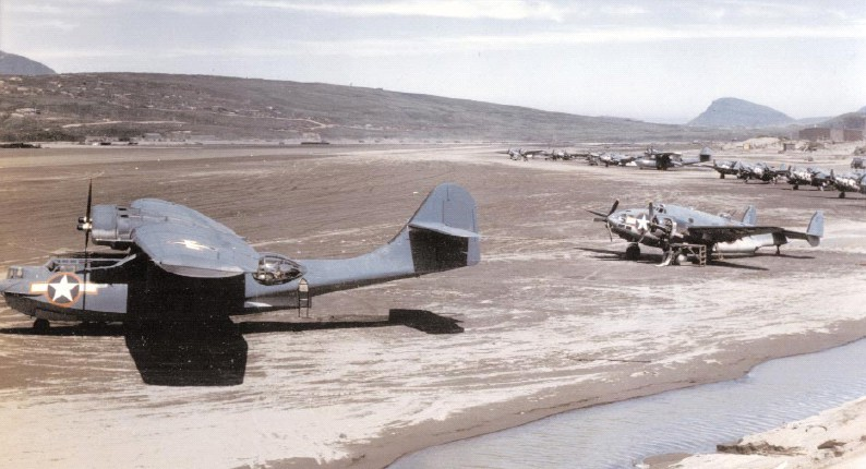 Lockheed PV-1 Venturas of patrol squadron VPB-135 on a Aleutian airfield in February 1943. Two Consolidated PBY-5A Catalinas of another patrol squadron are also visible.